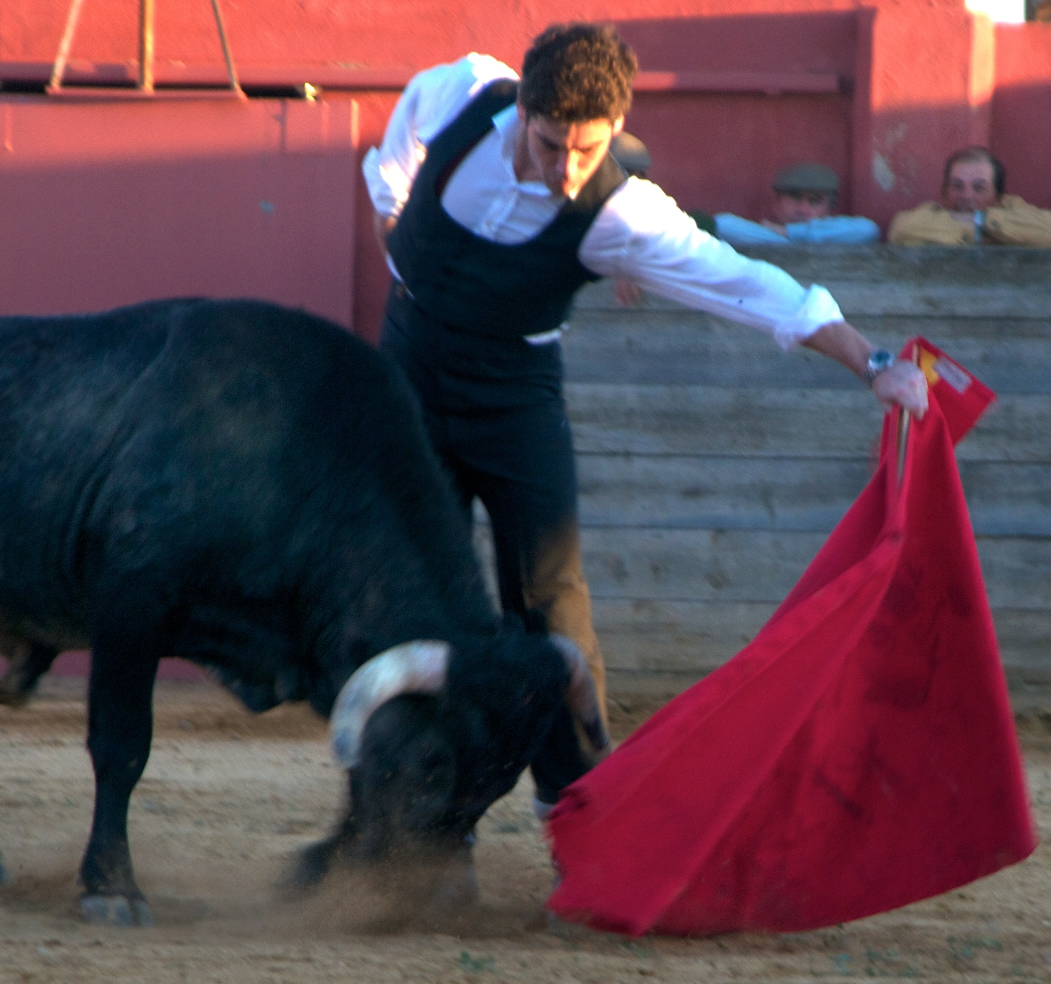 Alexander Fiske-Harrison performs a 'natural' pass with a 3-year-old fighting bull - 'novillo' - of Saltillo (Moreno de la Cova). Watching, left-to-right, the ganadero - bull-breeder - Enrique Moreno de la Cova and the ganadero Antonio Miura, at the finca Miravalles in Palma del Río, Córdoba province, Spain, on November 5th, 2010.